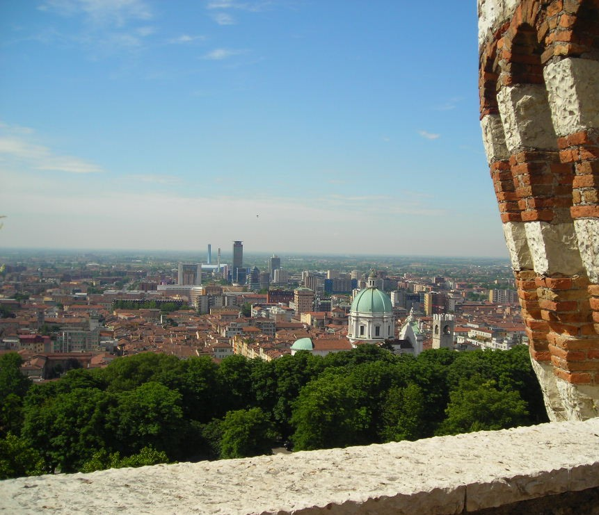 Brescia city skyline from the city castle